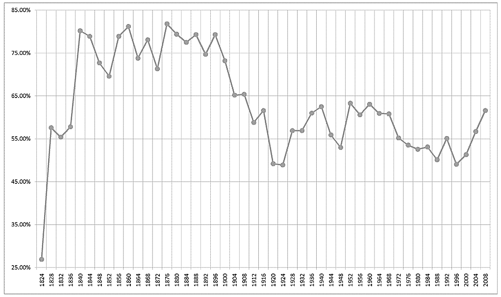 Graph of Voter turnout in the United States presidential elections from 1824 to 2008.